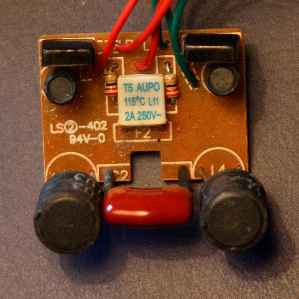 PCB of a simple DSL splitter.